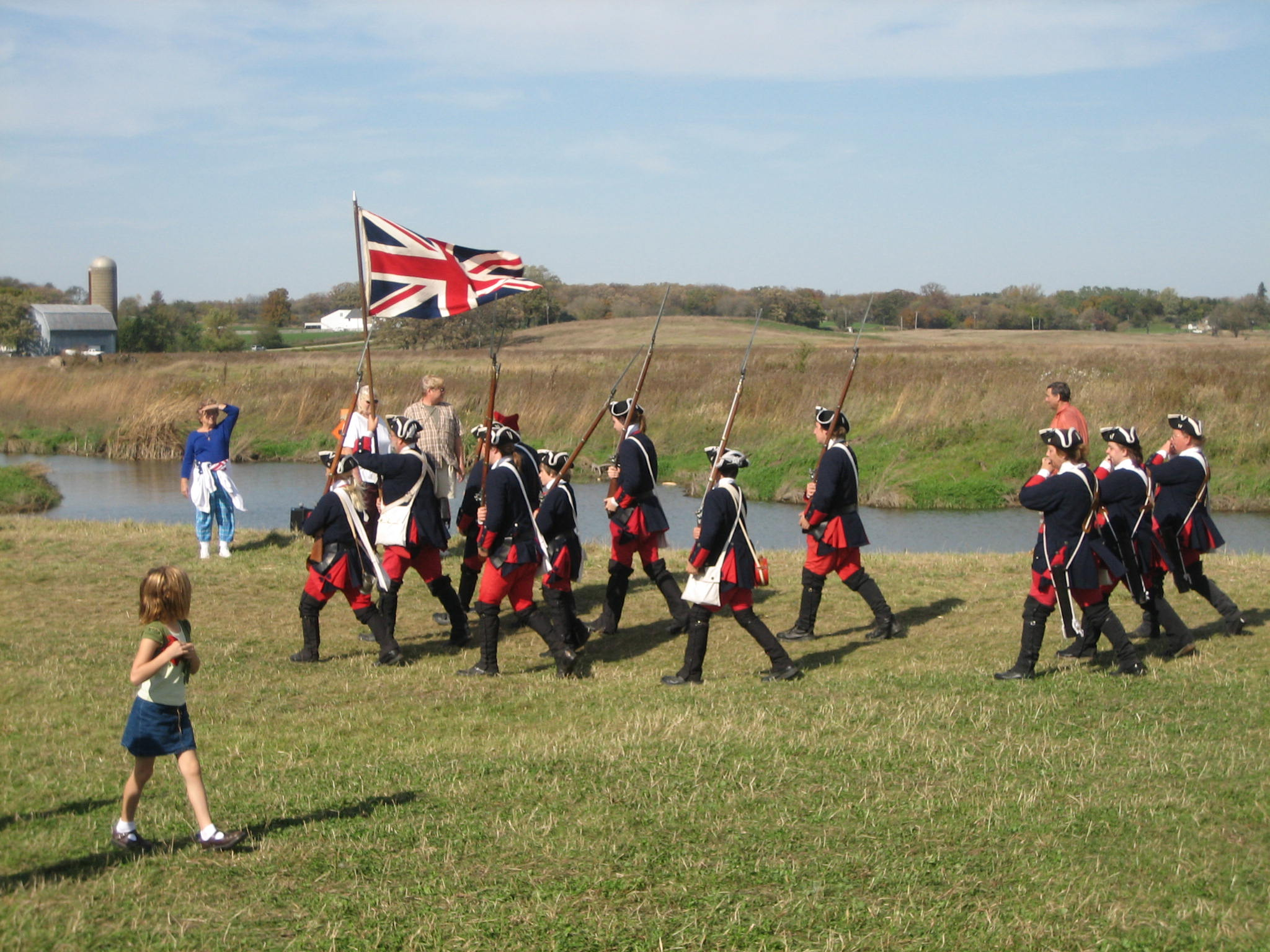 Reenactors portray members of the British Army in the early American Midwest. Ringwood, Illinois, Glacial Park in McHenry County, Illinois.